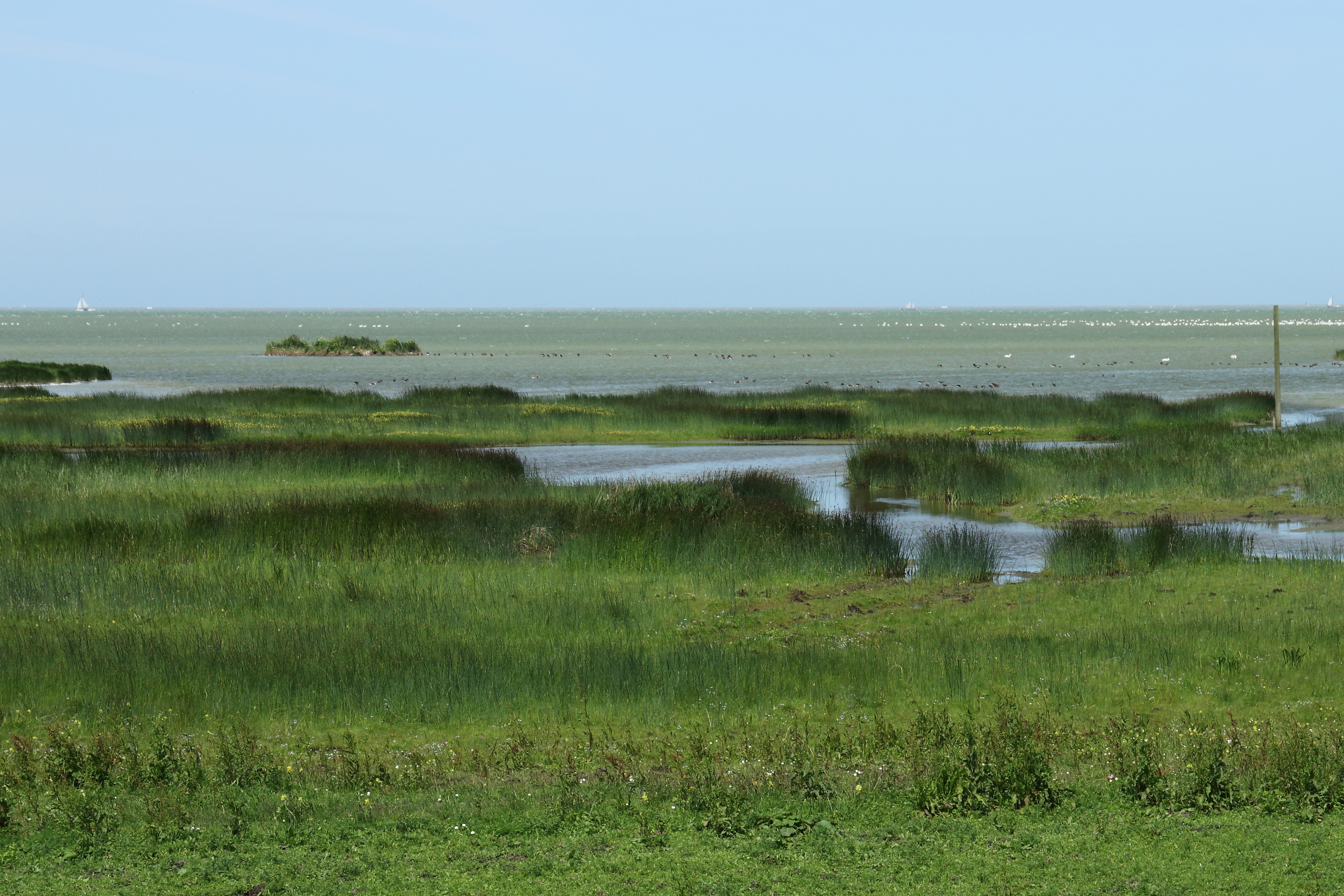 Warkumerwaard. Valuable nature in Friesland on the coast of the IJsselmeer in management at It Fryske Gea.